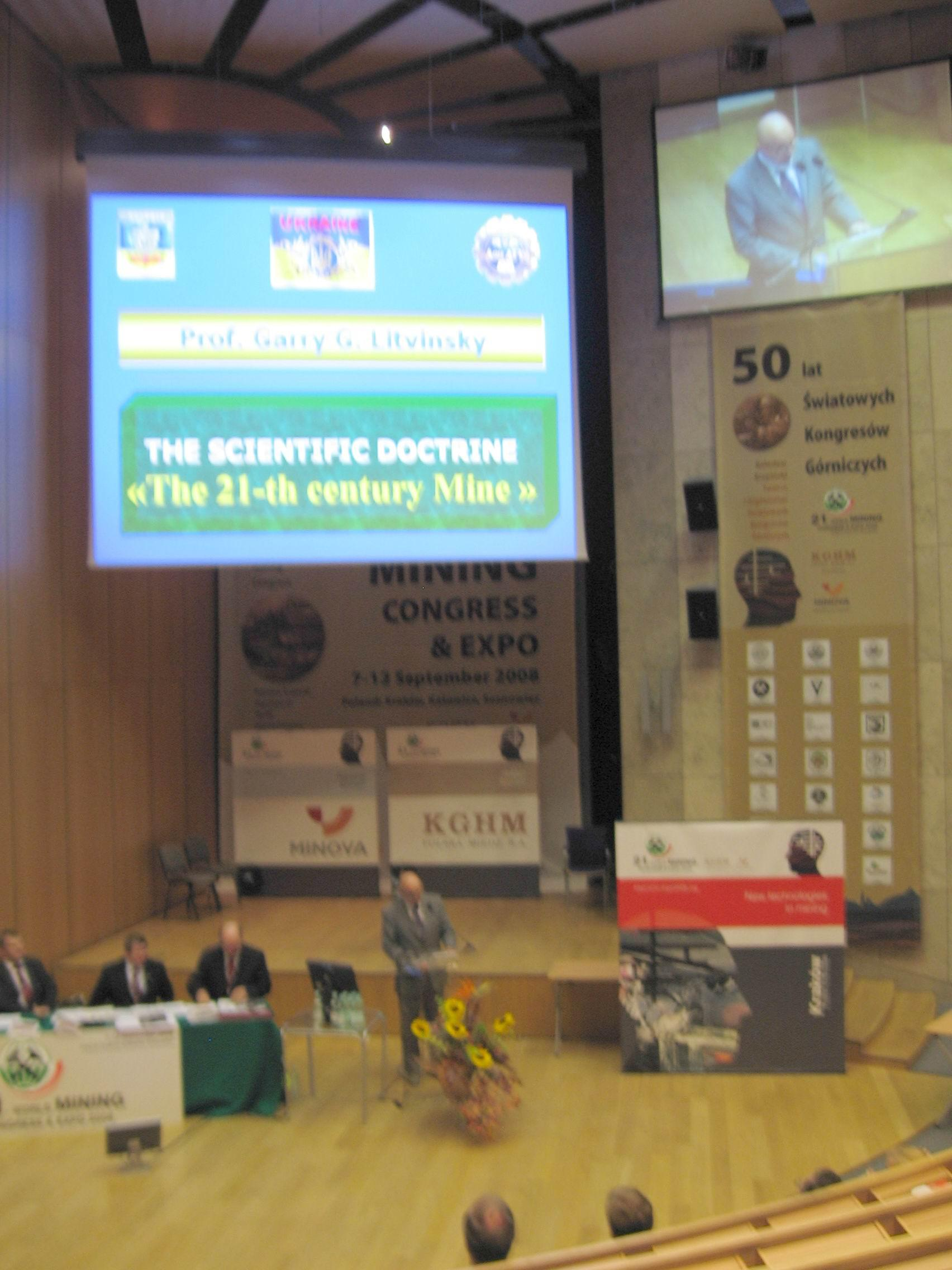 photo 21st Mining Congress